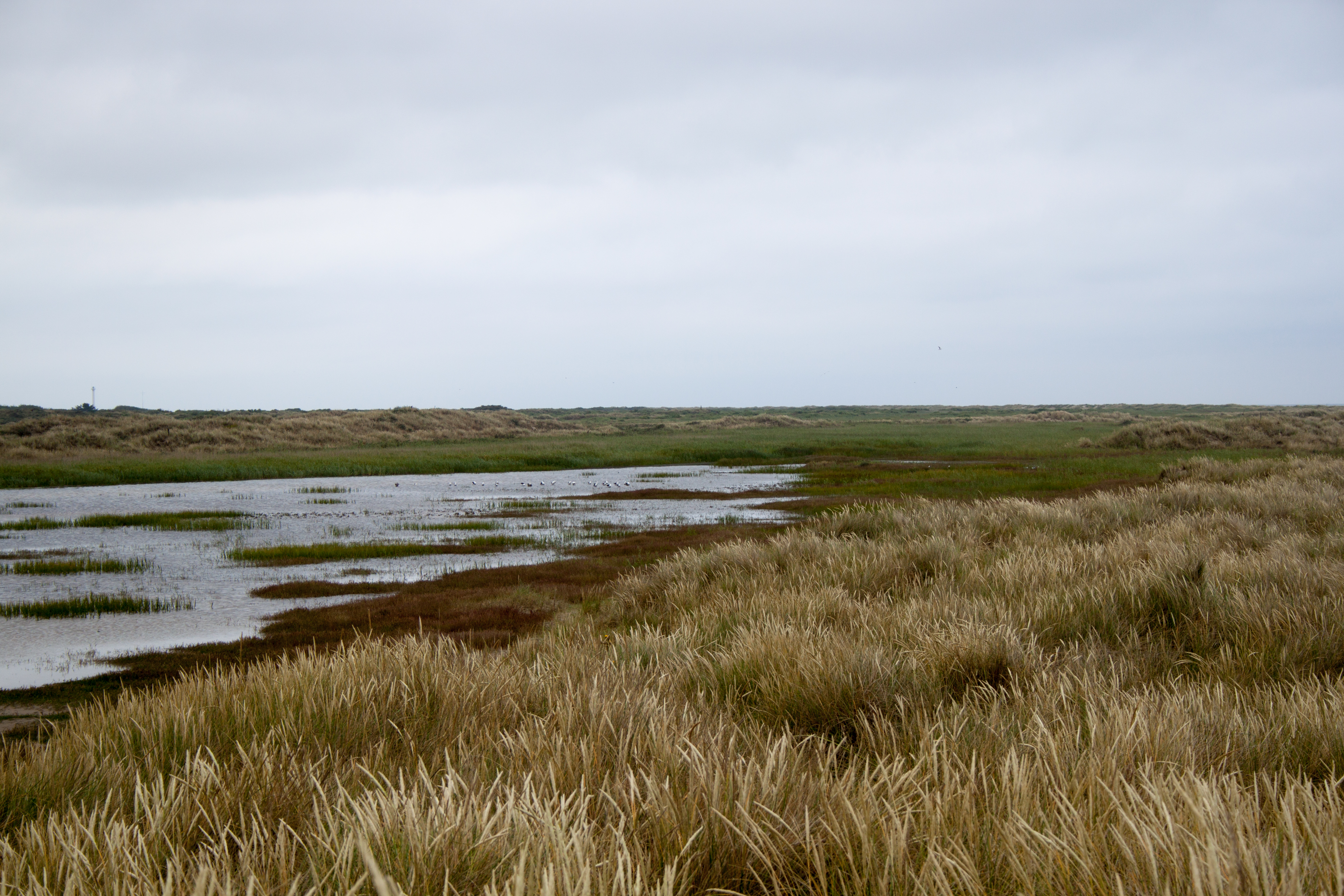 Lake among the dunes, Grenen